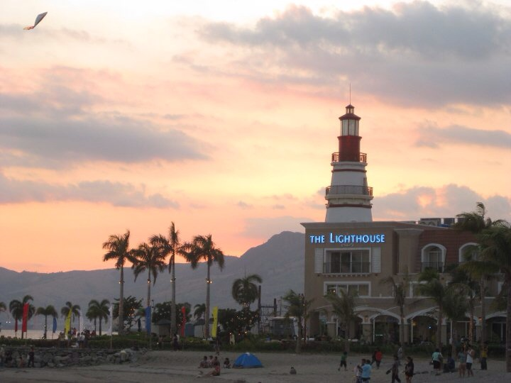 The Lighthouse Subic Bay, a hotel on Subic Bay's board walk, Philippines